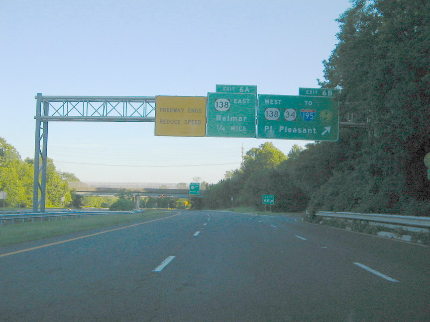 Route 18 southbound end of freeway